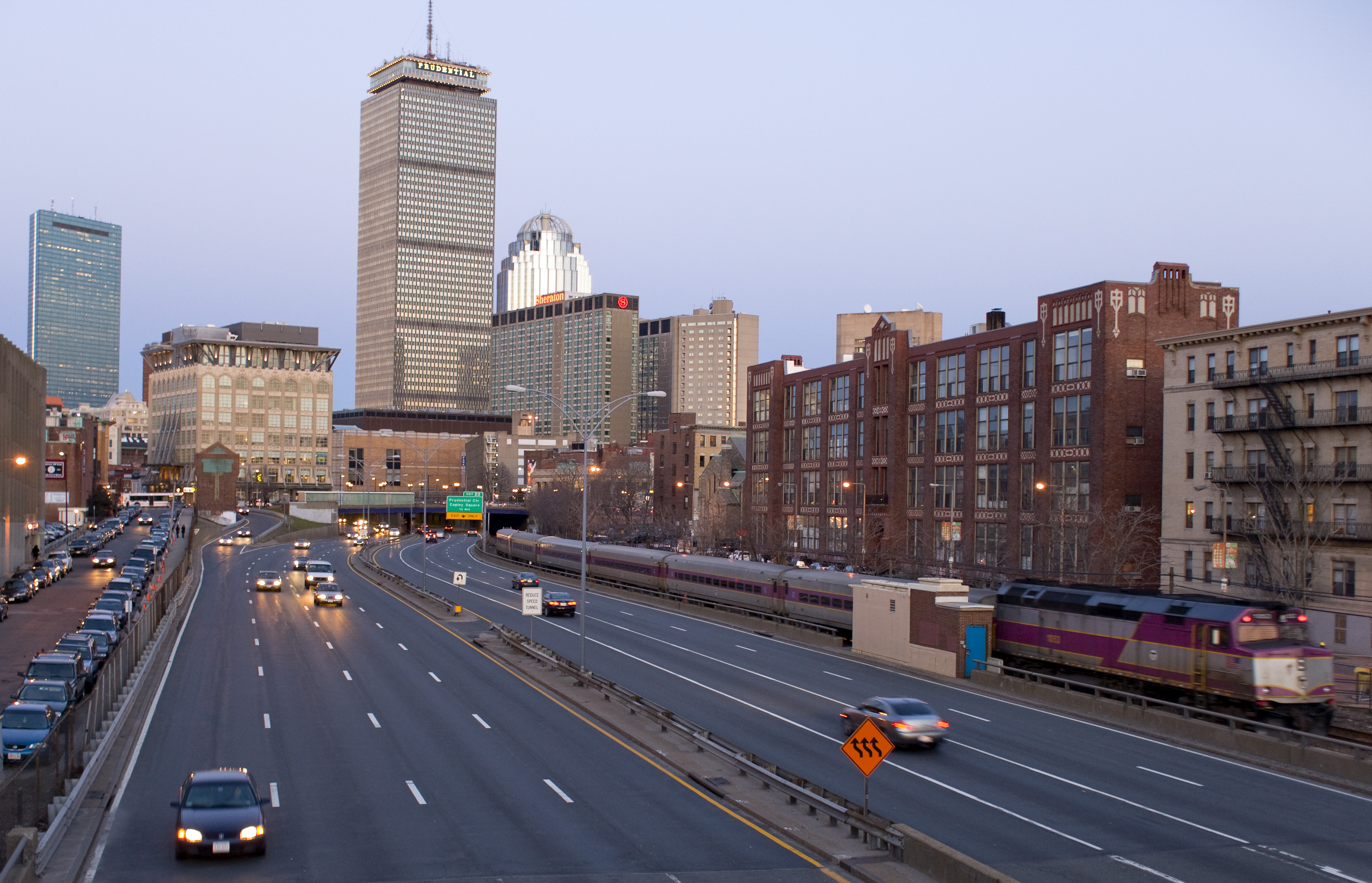 A Fitchburg Line train passes light traffic on the Mass Pike. Newbury Street is on the left; a Green Line vent is visible next to the entrance ramp.